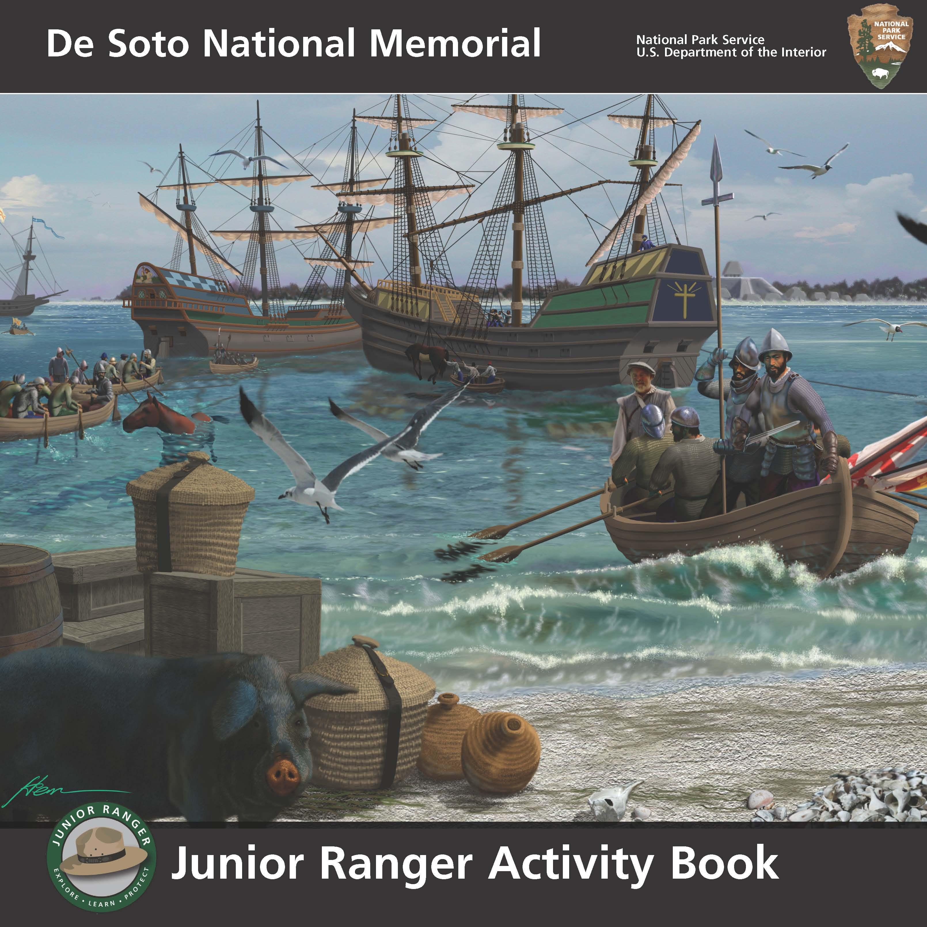 The cover of a Junior Ranger Activity Book for De Soto National Memorial.